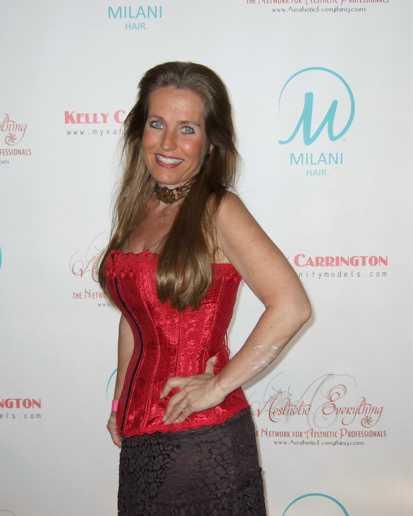 Dr. Charlotte Laws on the Red Carpet at the MTV Awards Gifting Suite party on June 4, 2010 at the Beverly Hills Country Club.